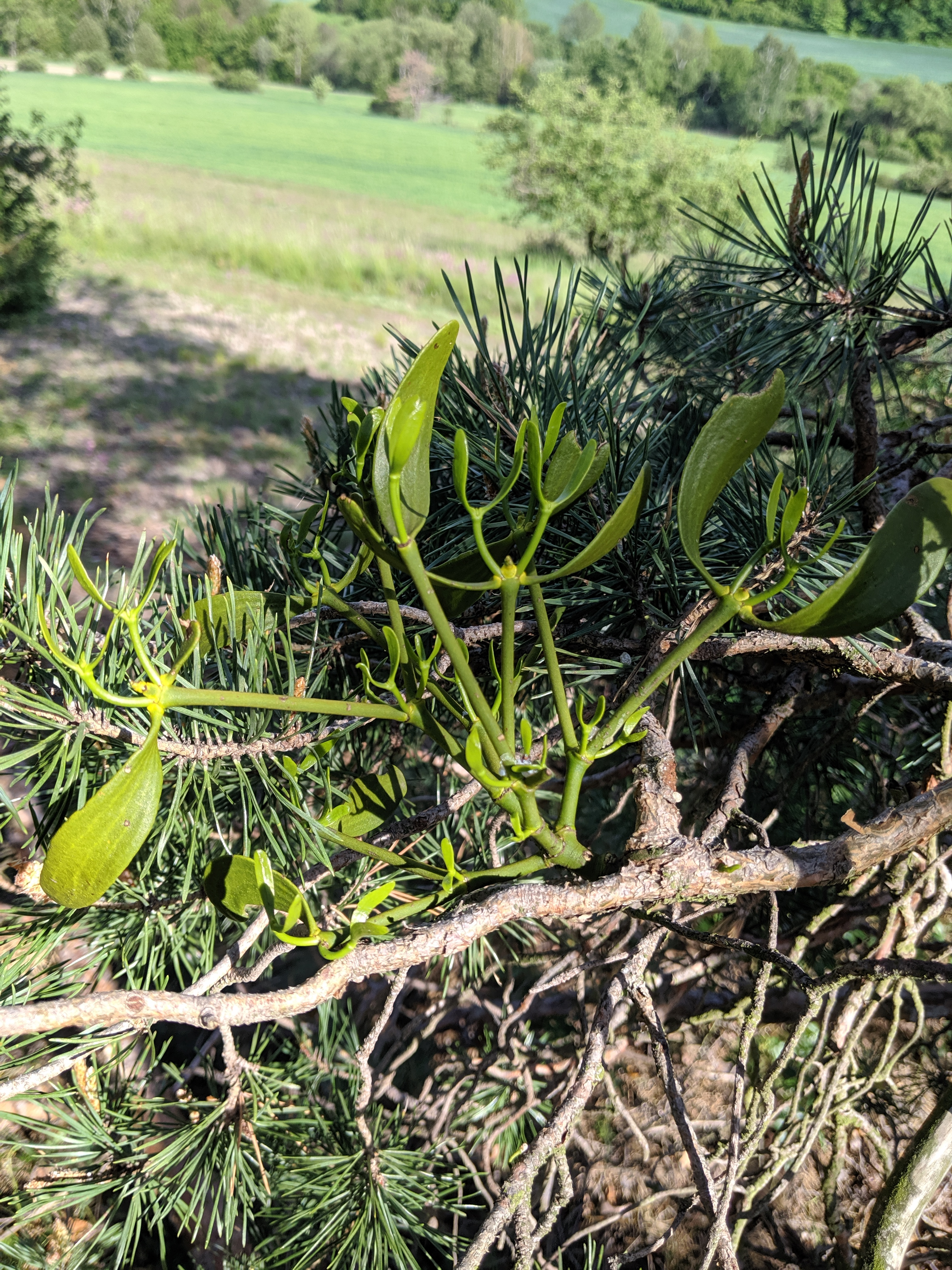 'Viscum album' subsp. 'austriacum' on 'Pinus sylvestris', Central Bohemia